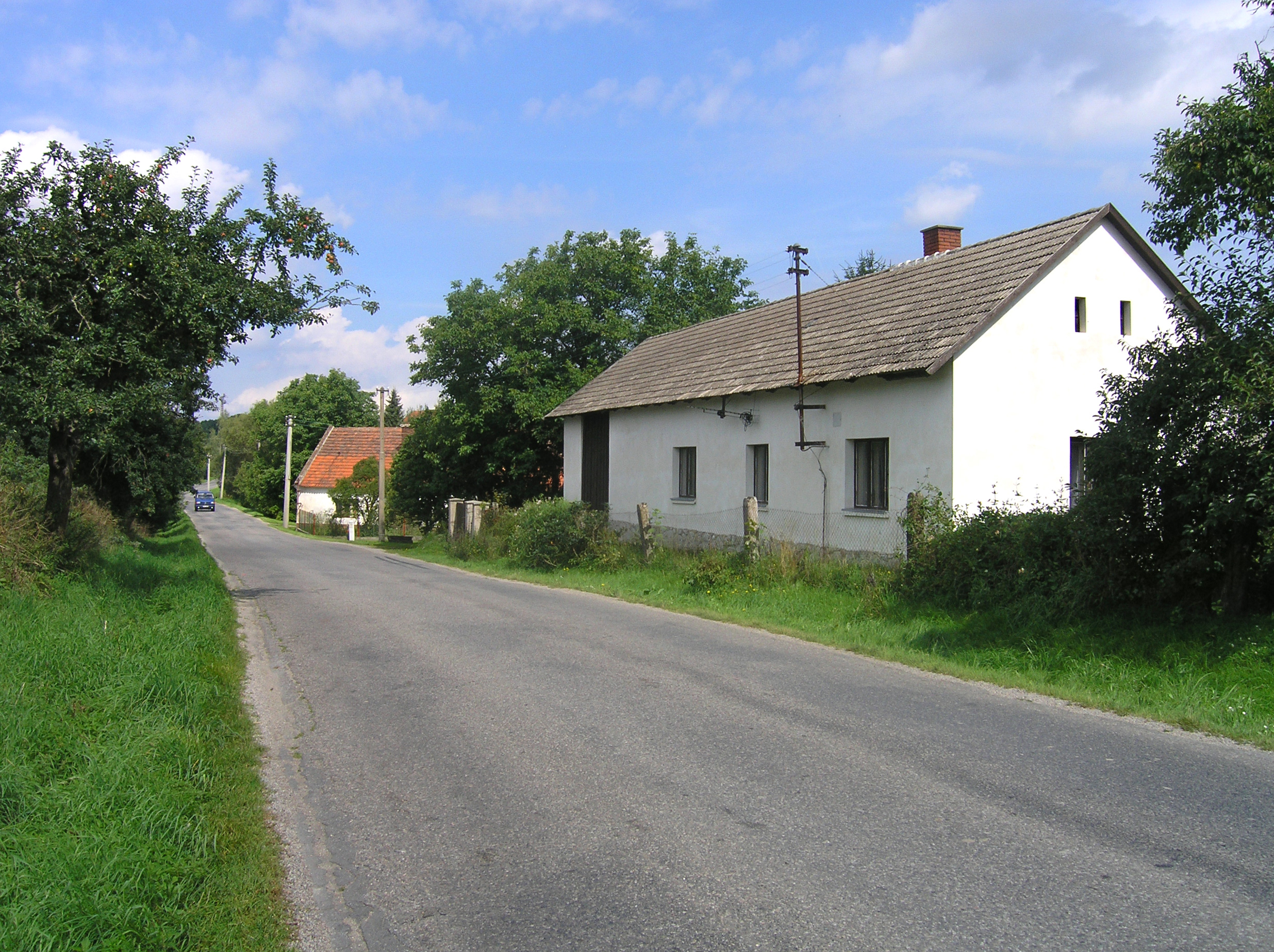 Sušice, part of Postupice village, Czech Republic